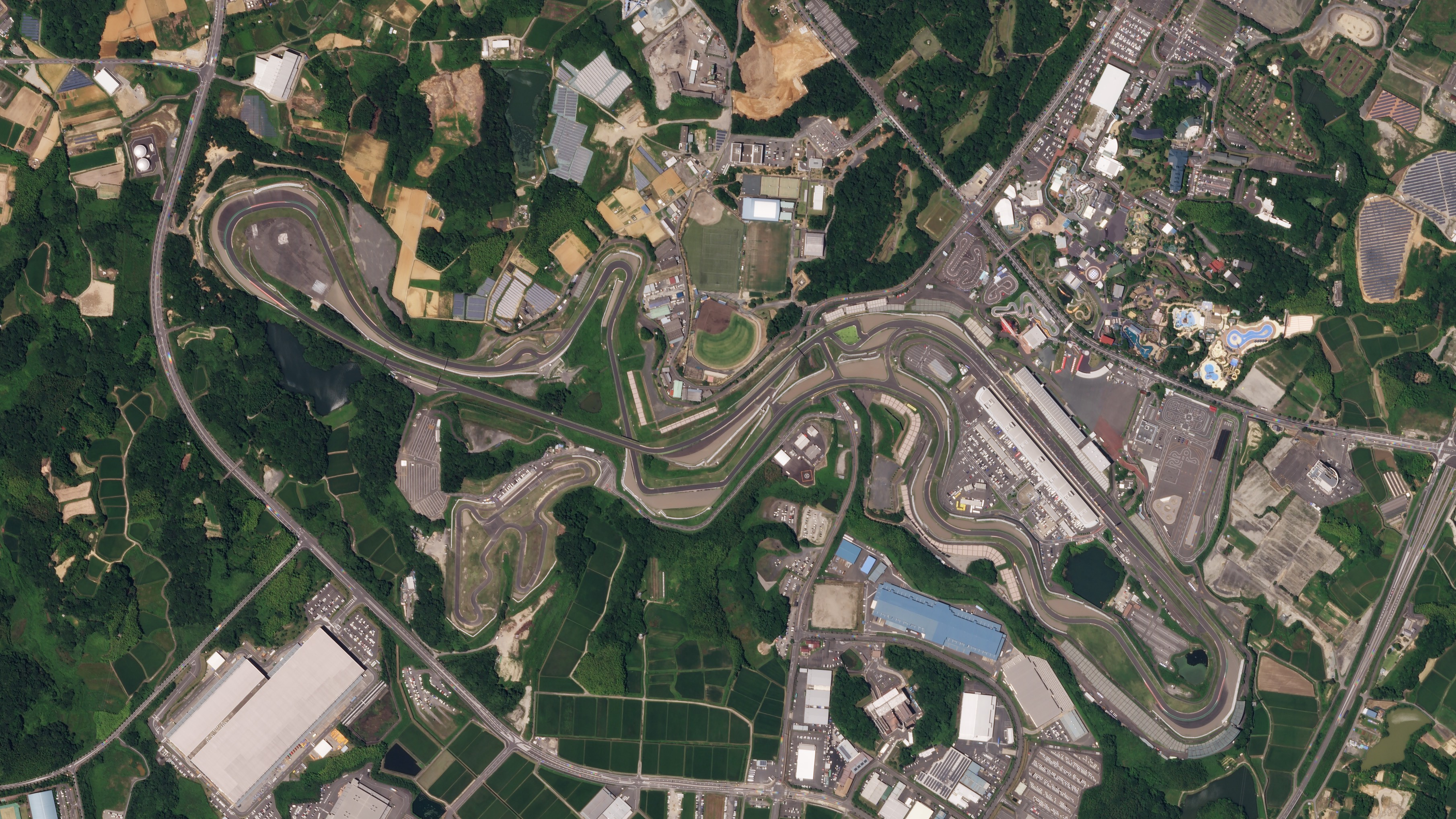 The Suzuka International Racing Course, a motorsport race track located in Ino, Suzuka City|, Mie Prefecture, Japan and home of the Japanese Grand Prix since 1987. Image taken on July 10, 2018, by a Planet Labs SkySat satellite.